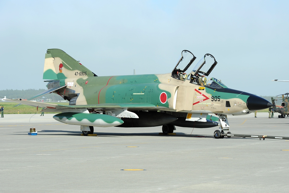 "Misawa Air Fest 2011"